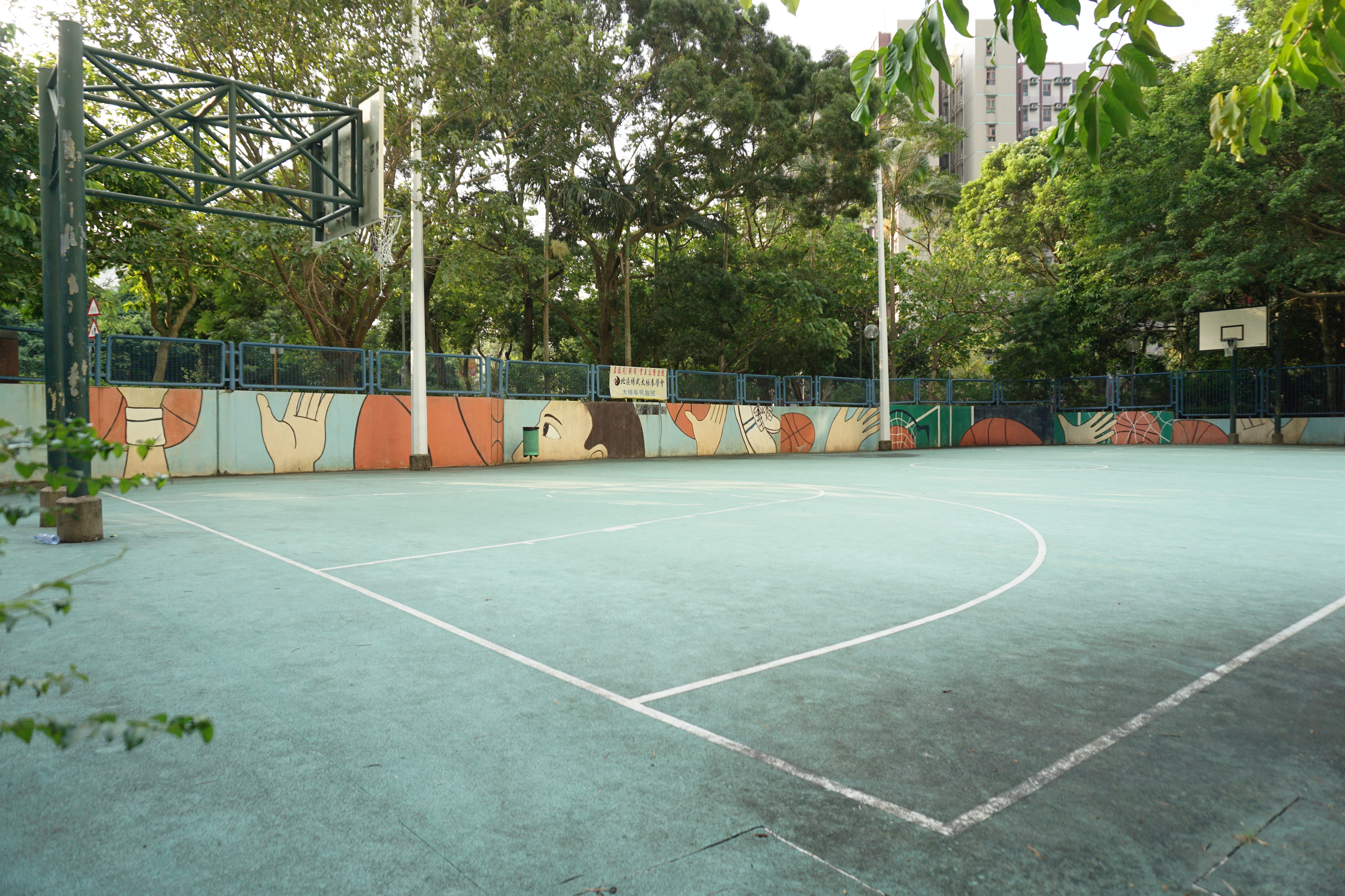 Ka Shing Court in Fanling, Hong Kong.